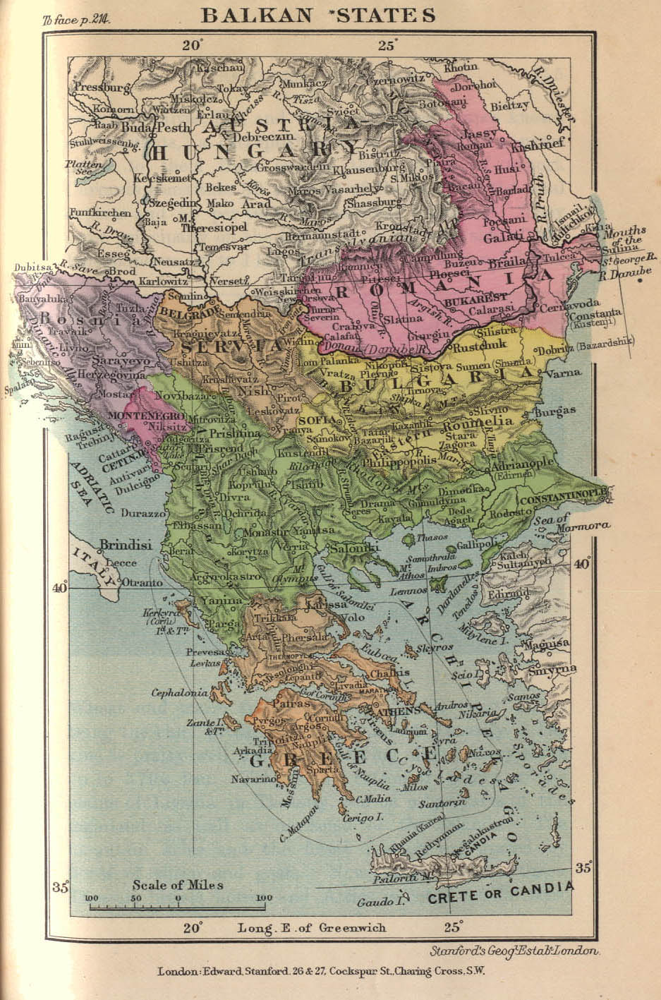 Balkan States 1899 (304K) Map from "Stanford's Compendium of Geography and Travel: Europe" Volume 1, 1899.